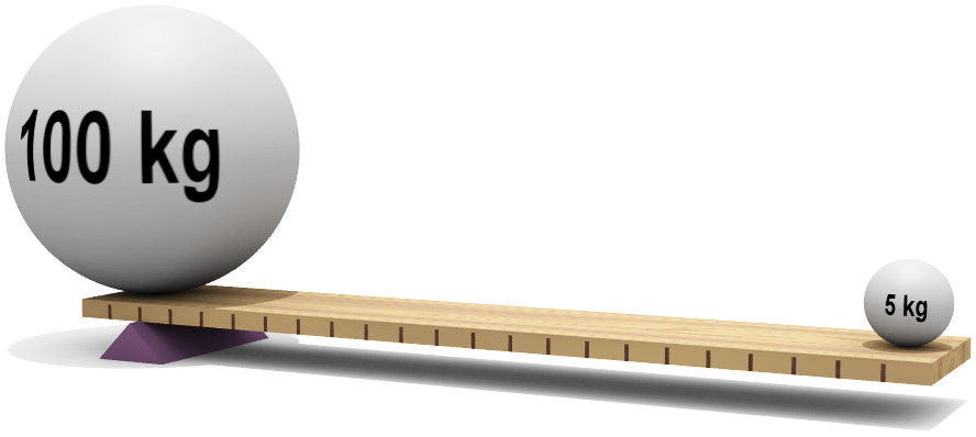 This image illustrates the mechanical advantage of the lever. Copyright © 2004 César Rincón. Imagen creada para la Wikipedia en Español.